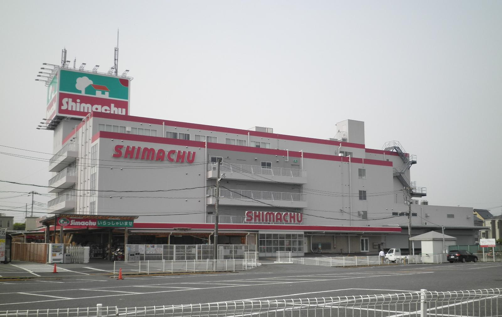 Shimachu Co.,Ltd Headquarters in Saitama, Japan.